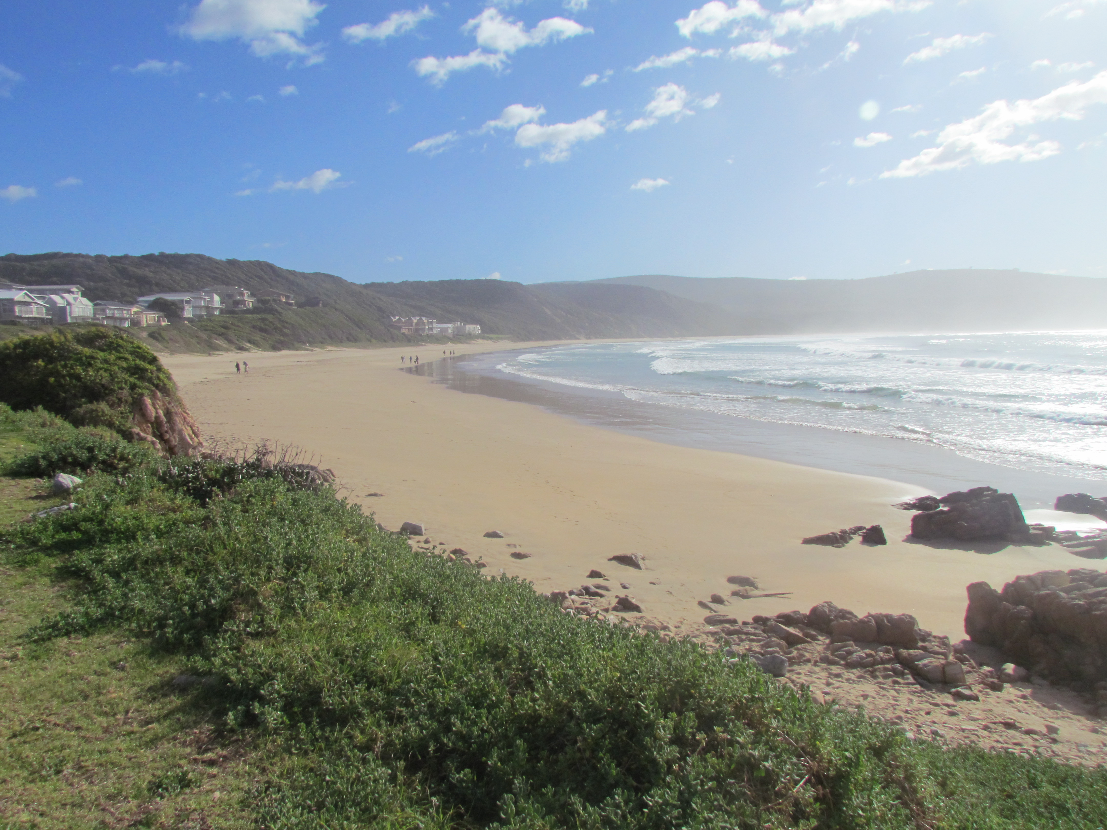 Buffels bay